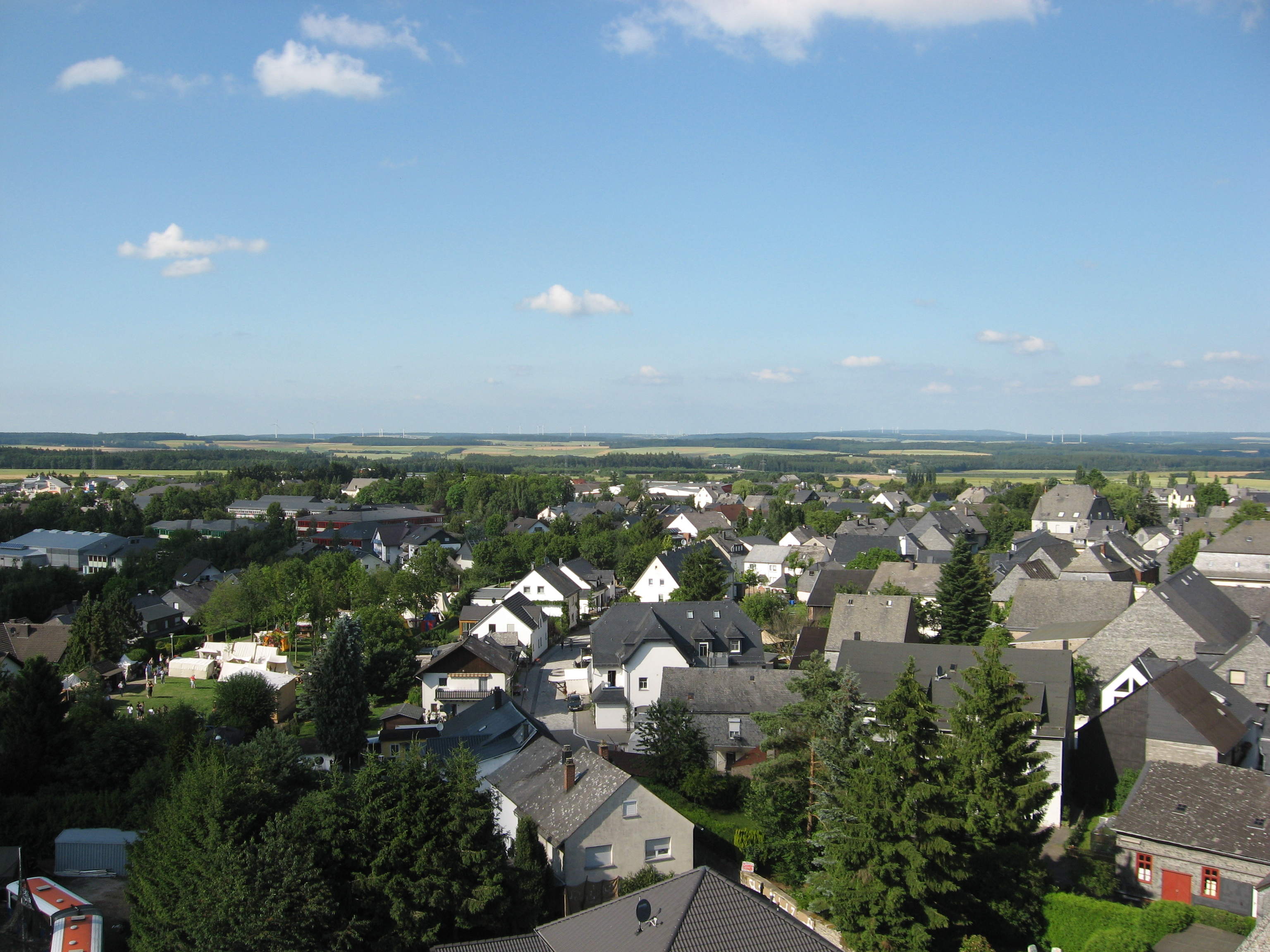 Kirchberg in the Hunsrück landscape, Germany